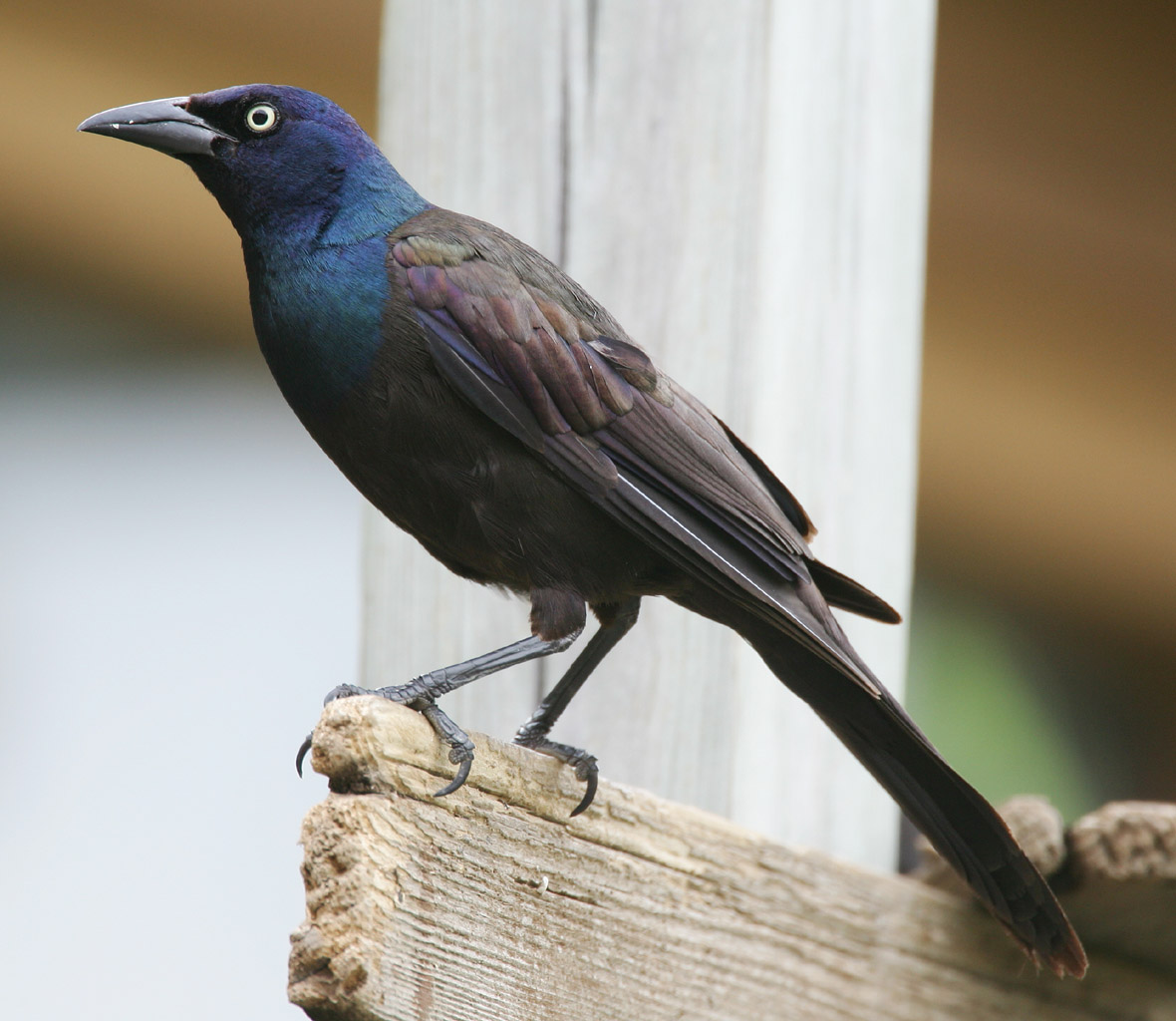 Common Grackle (Quiscalus quiscula) in a backyard in Toronto, Canada, 2005; de: Purpur-Bootsschwanz